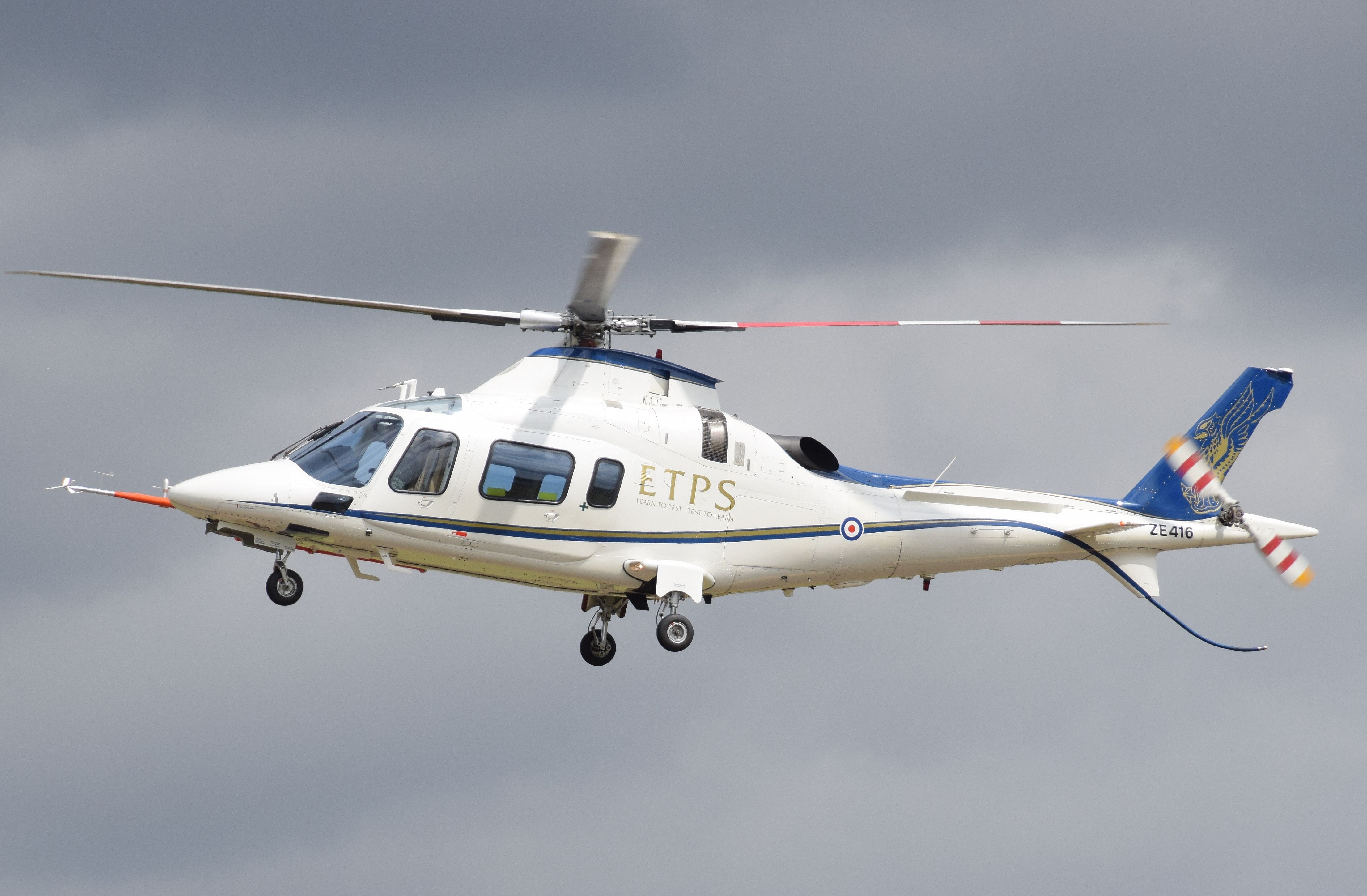 AgustaWestland AW-109E Power (ZE416) of the Empire Test Pilots' School, at the 2017 Royal International Air Tattoo, RAF Fairford, England.